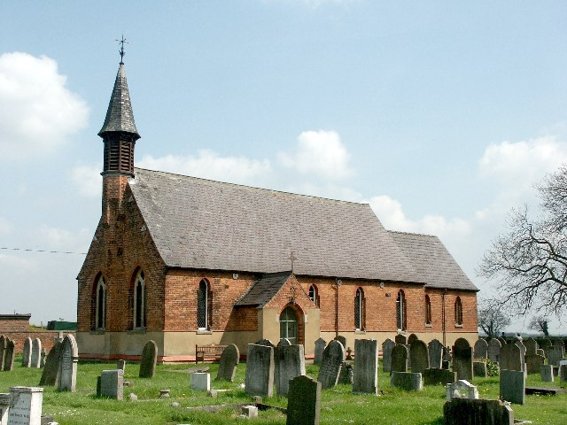 St Luke's parish church, North Kyme, Lincolnshire, seen from the southwest. Designed by Drury and Mortimer and built in 1877.